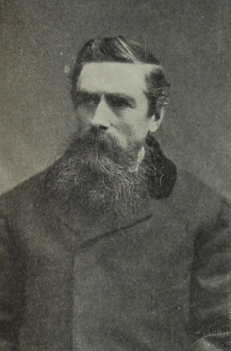 Portrait of George Manville Fenn